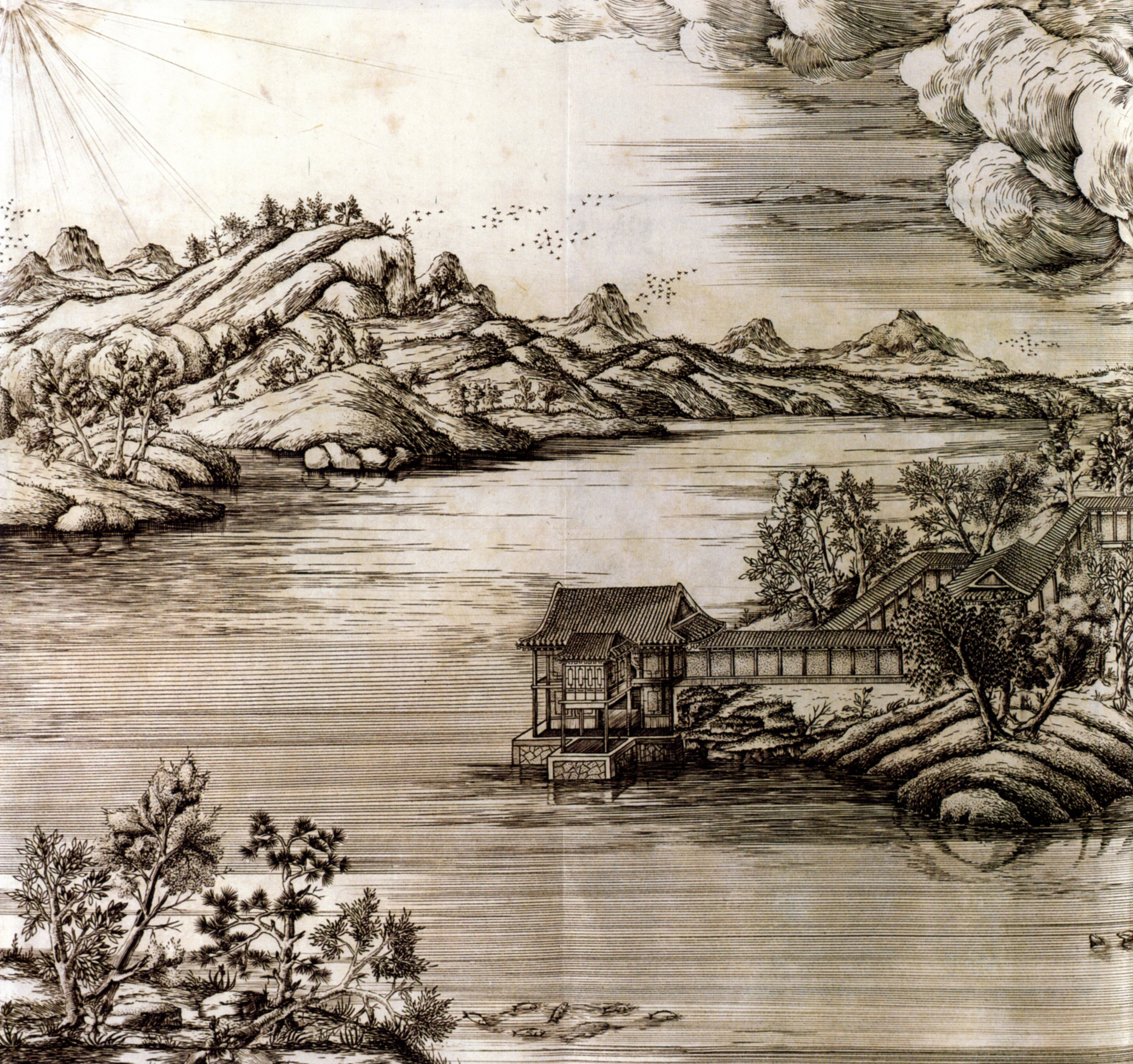 Copper plate print from "Imperial Production of Illustrated Poetry on the Summer Mountain Retreat" (御製避暑山莊詩圖). The image is a view of the Chengde Mountain Resort built by Emperor Kangxi near Chengde. Width 28 cm, Height 45 cm. Located in the National Palace Museum, Taipei.